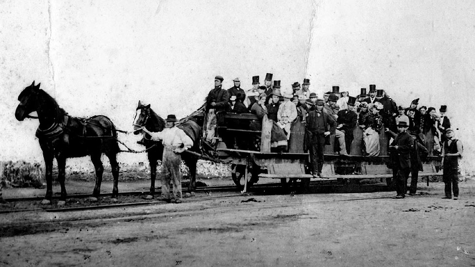 Tram on the Swansea and Mumbles Railway in Wales